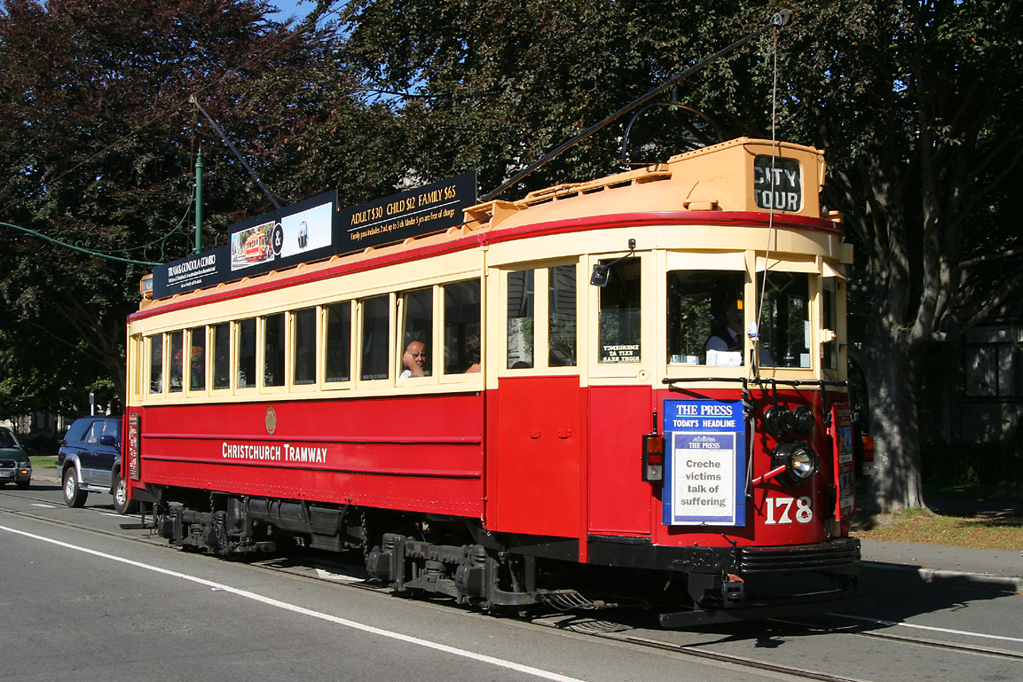 Brill tram No 178 on the Christchurch Tramway